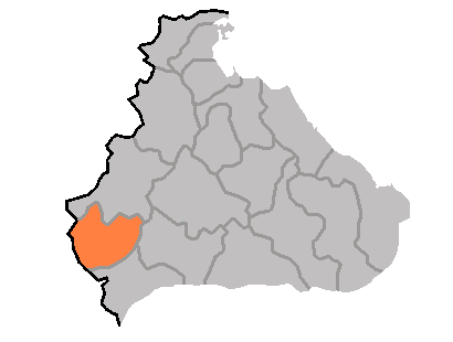 Ichon county map